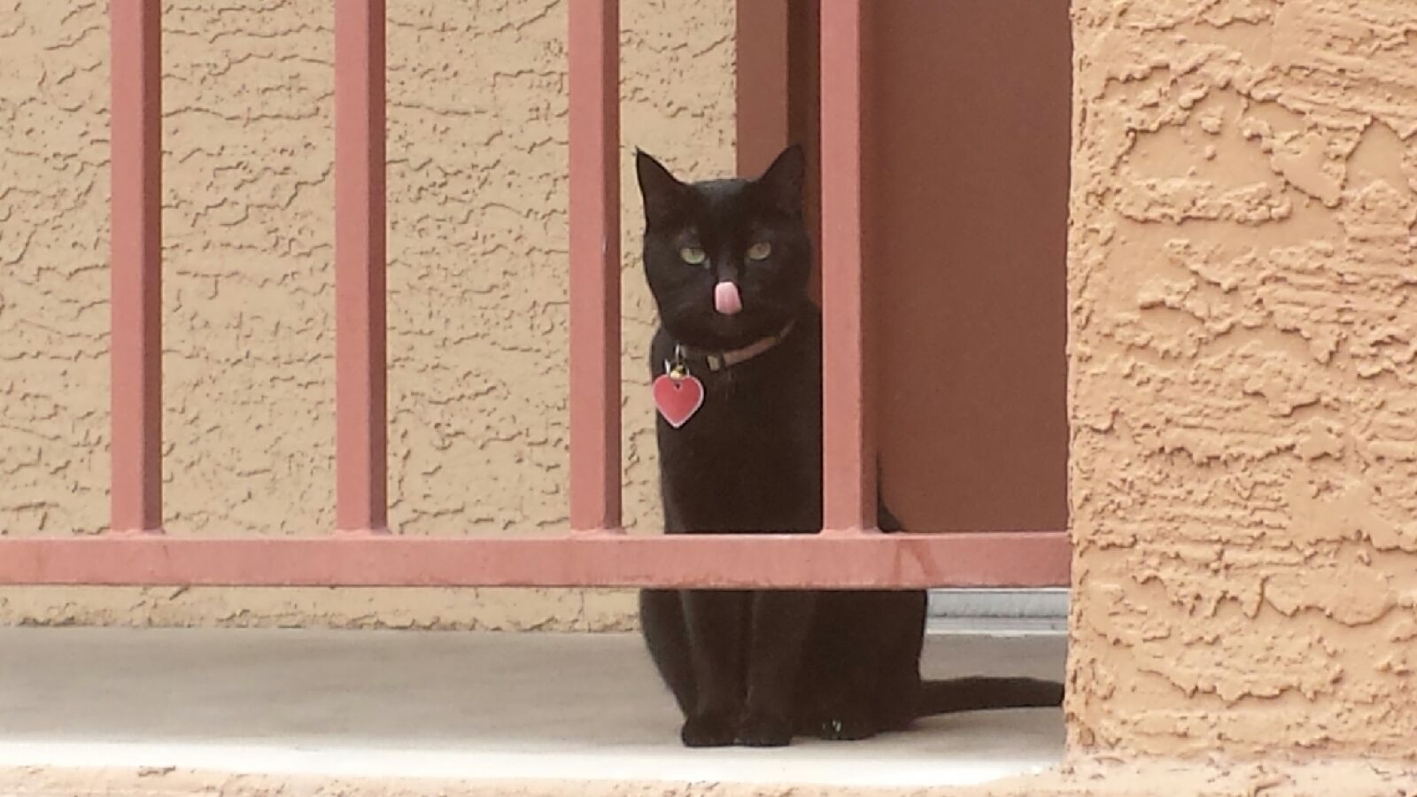 Sierra Black Short Hair Domestic